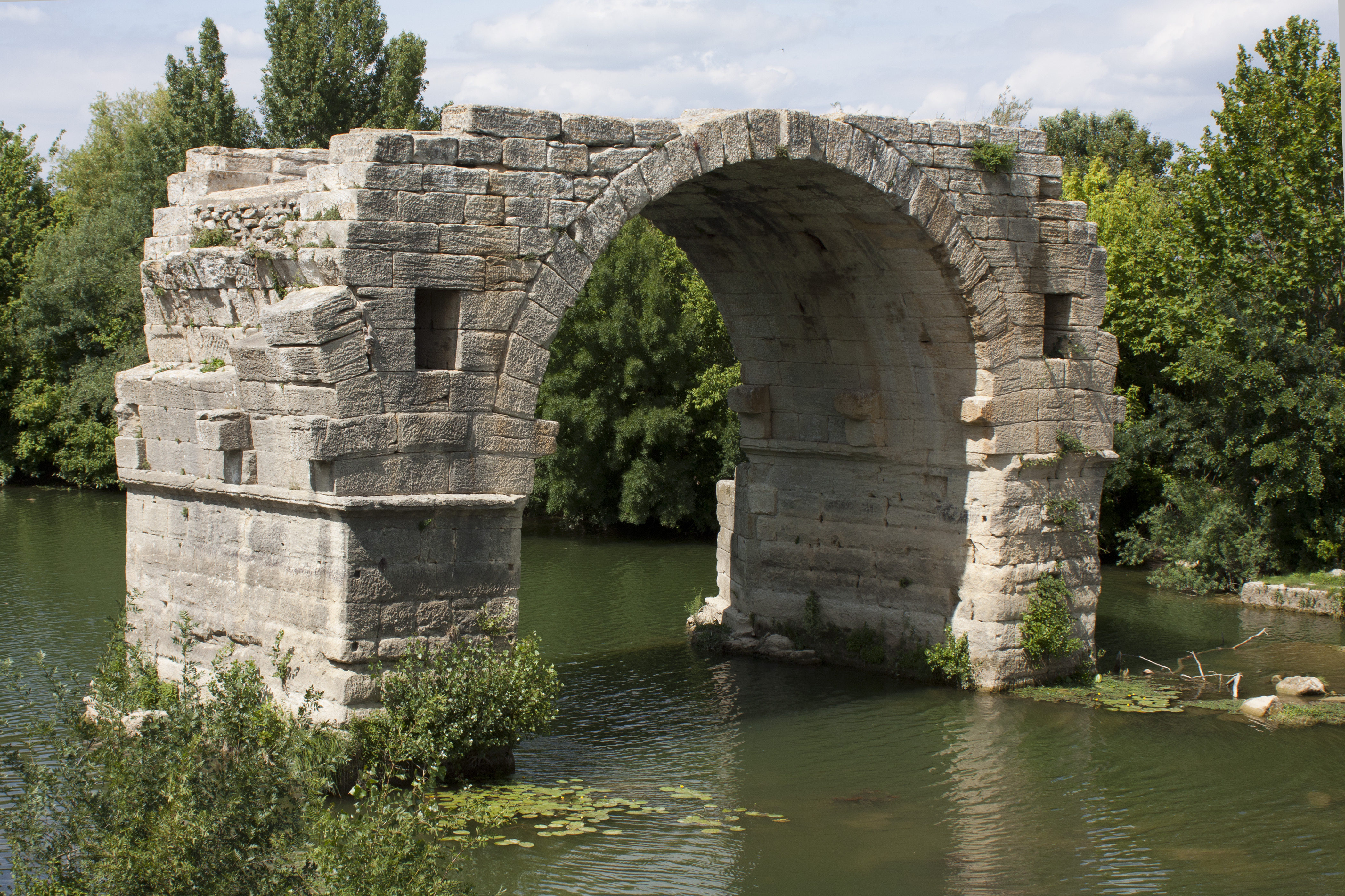 Remains of a Roman bridge, named Pont Ambroix..